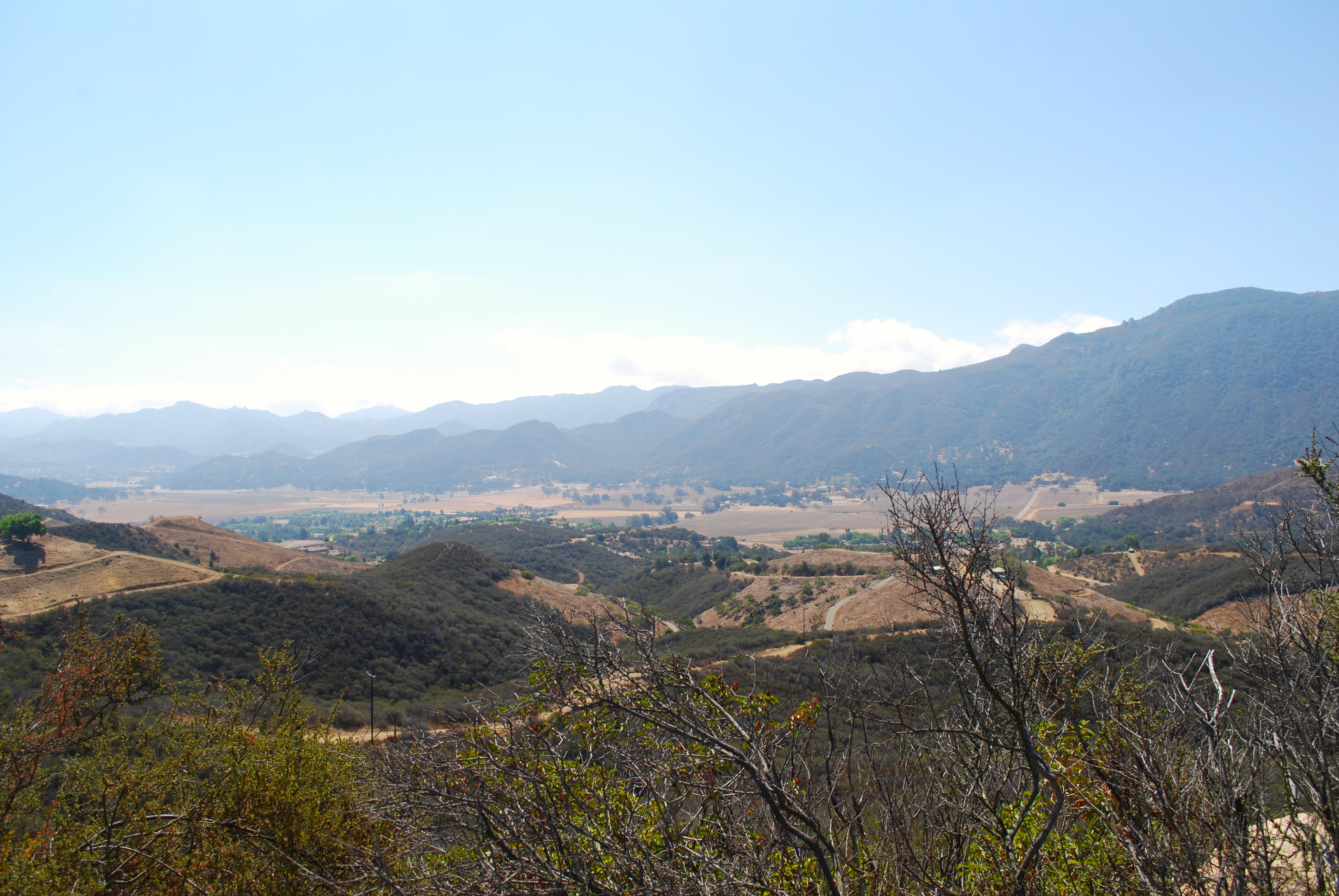 Hidden Valley as seen from the top of Angel Vista on the Rosewood Trail in Ventu Park Open Space, Newbury Park, California.